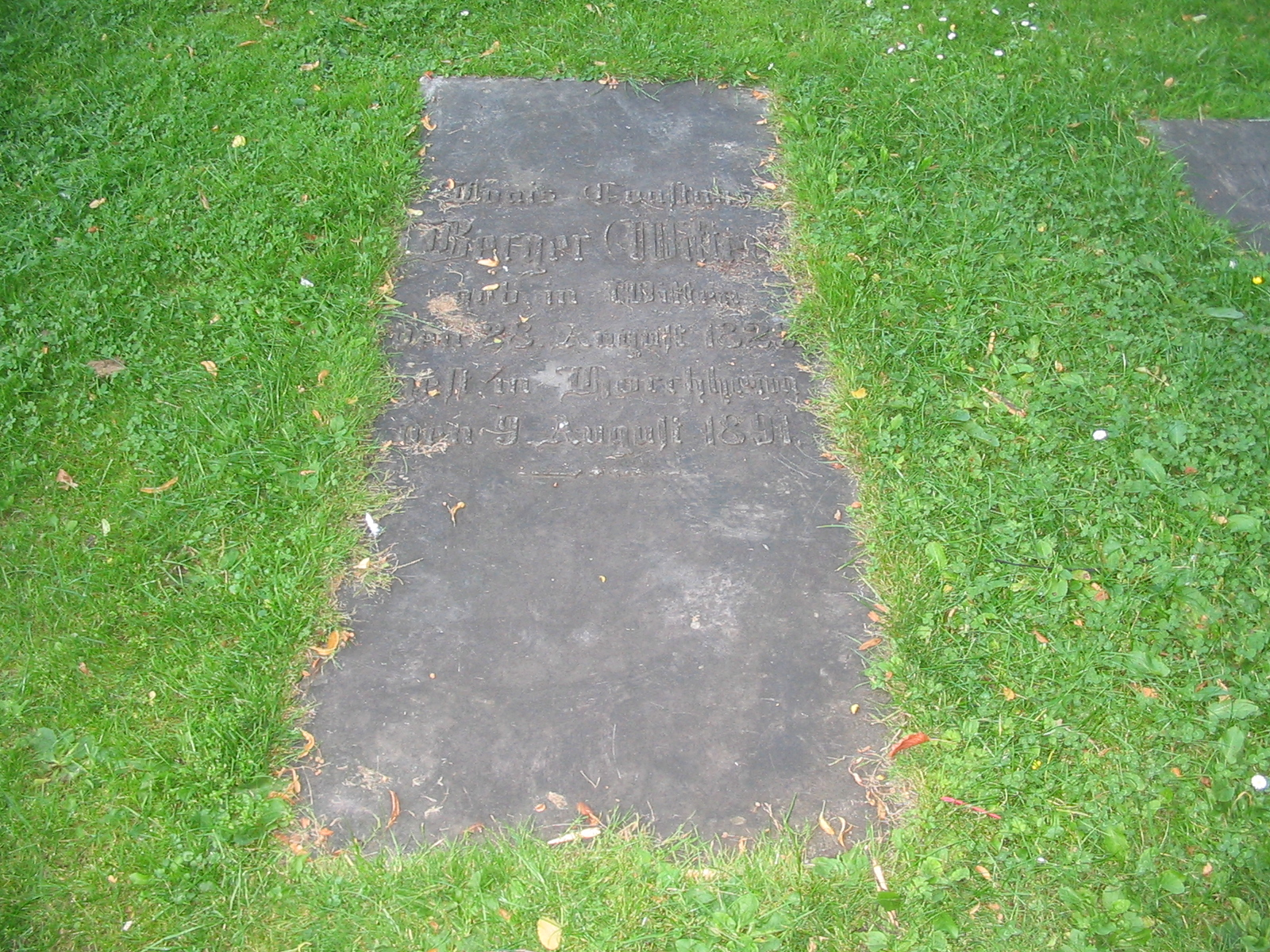 tombstone of Louis Constanz Berger in Witten